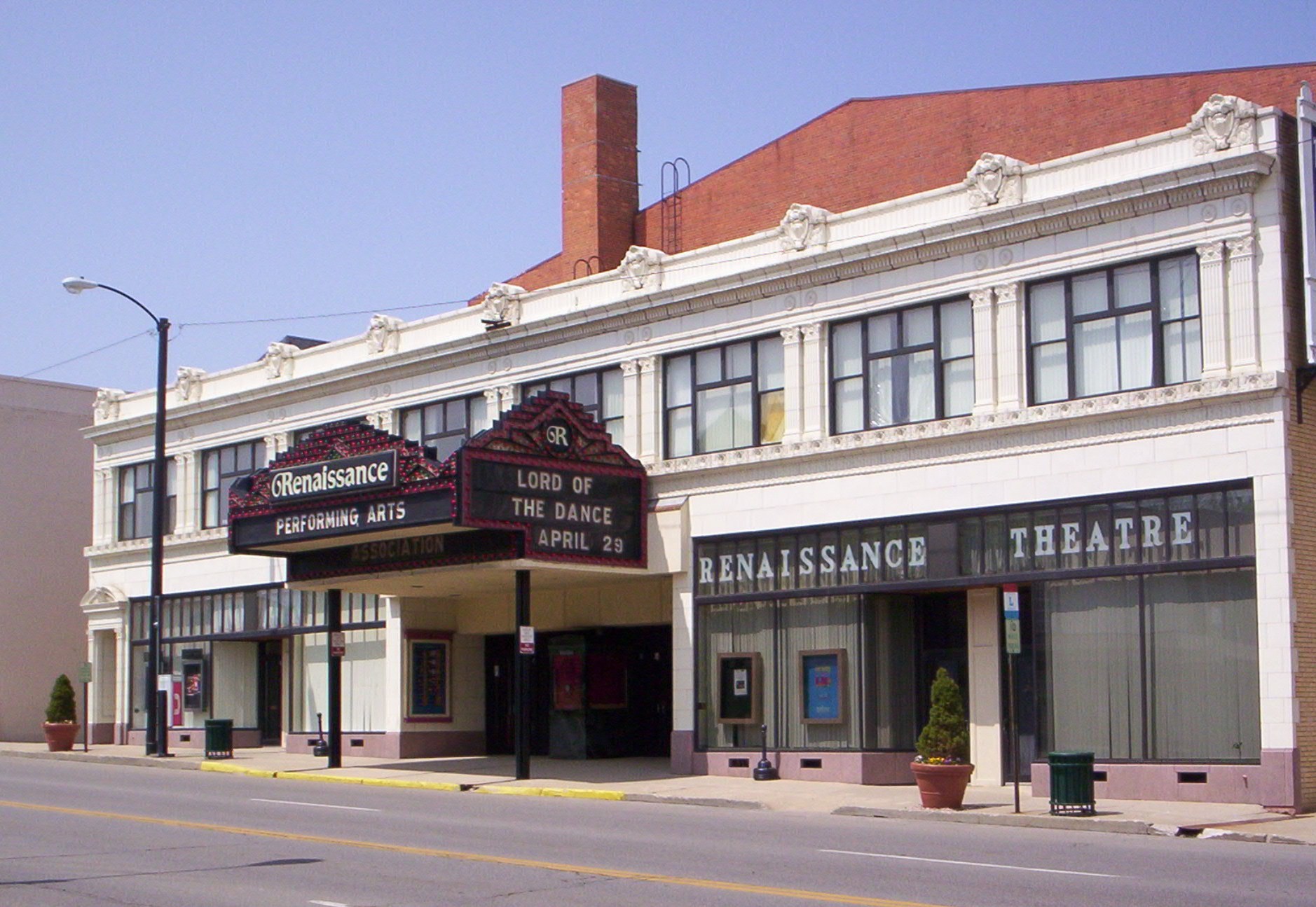 A view of The Renaissance in downtown Mansfield, Ohio, USA.